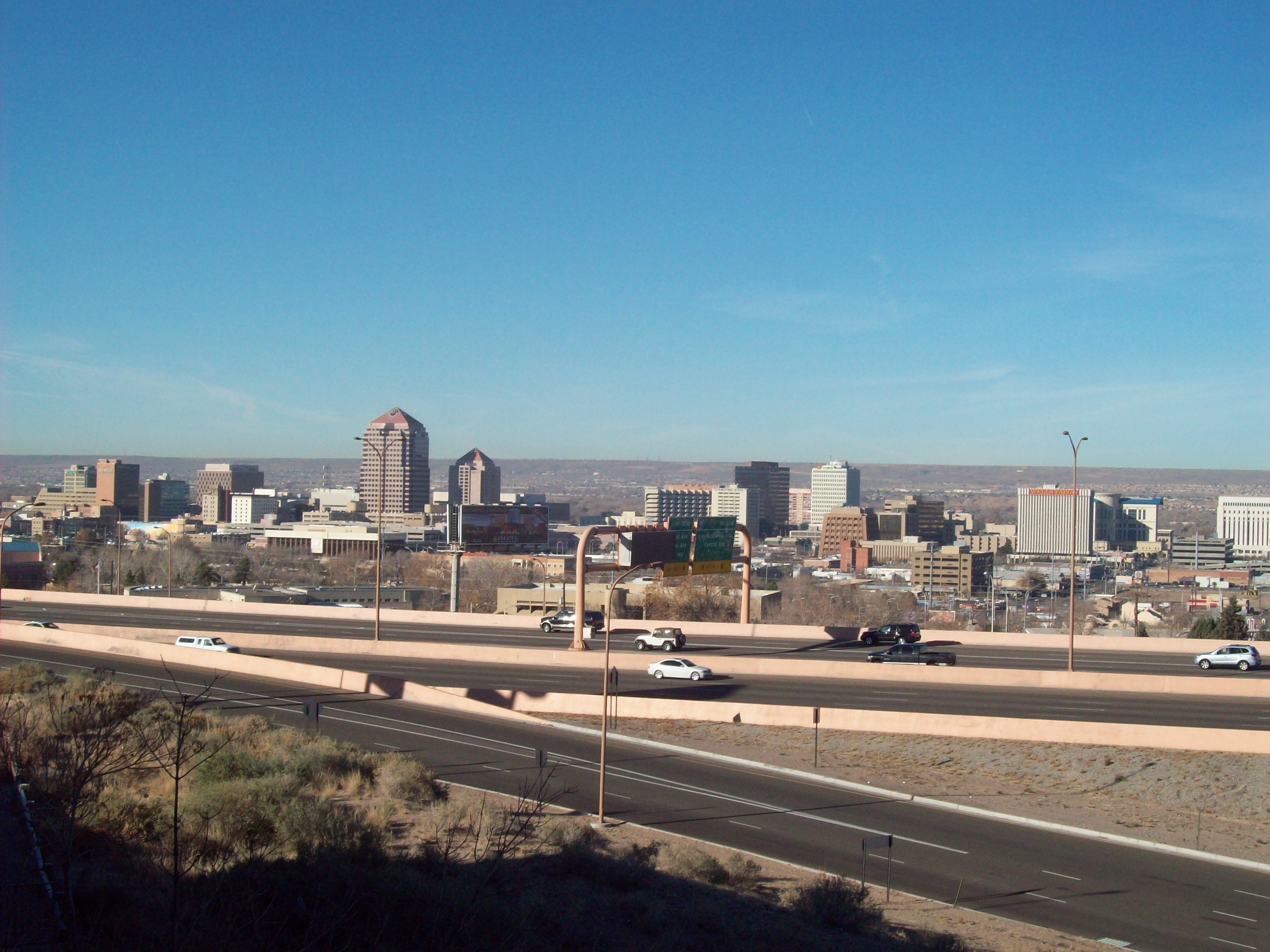 Albuquerque and Interstate 25 in New Mexico, USA